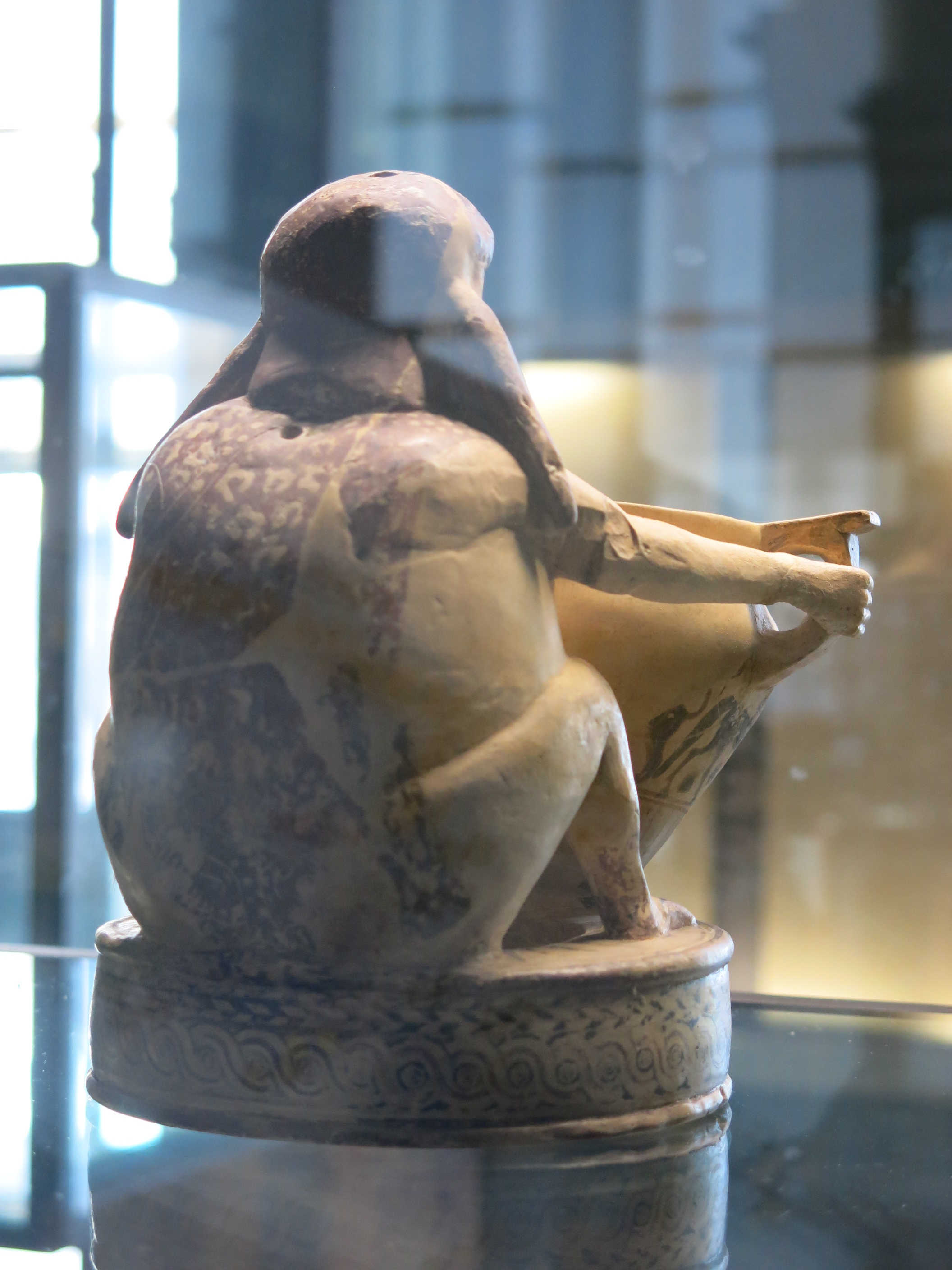 Corinthian plastic vase (skyphos) in form of a drinker (komast), ca. 580-570 BC. From Corinth. Louvre museum (Paris, France).